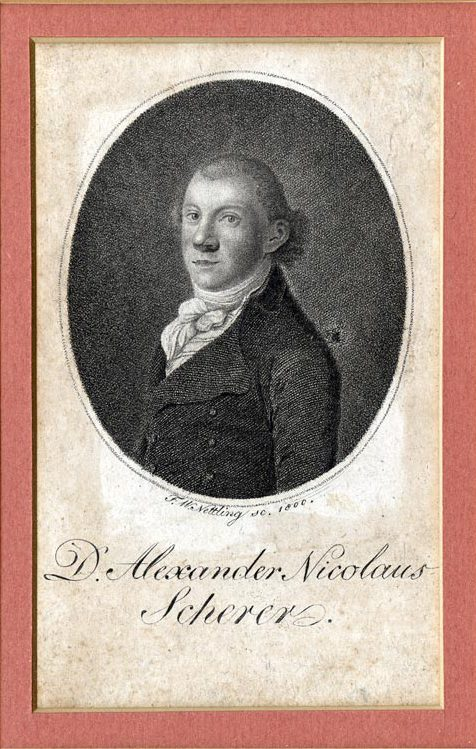 Alexander Nicolaus Scherer, chemists